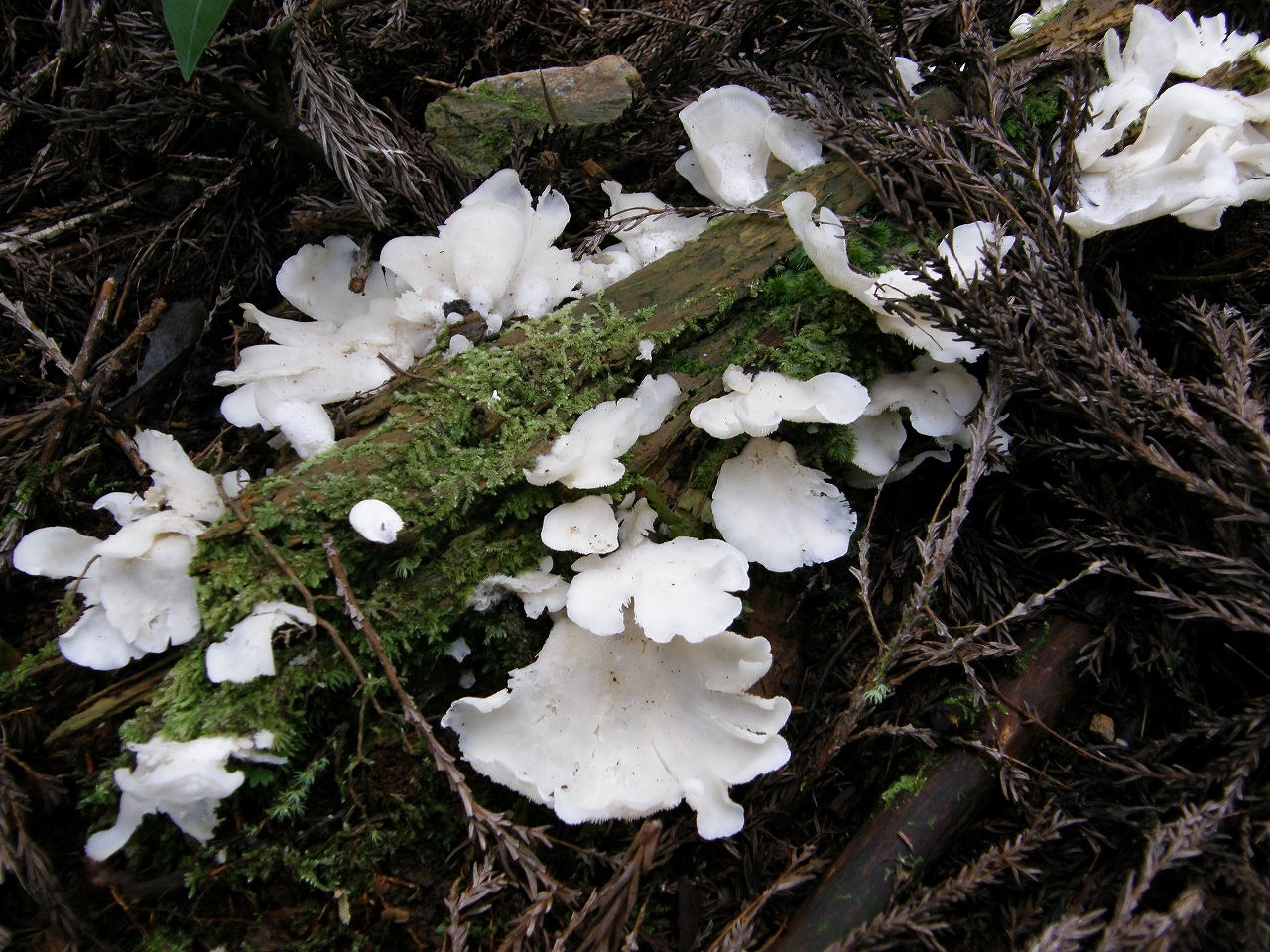 Pleurocybella porrigens